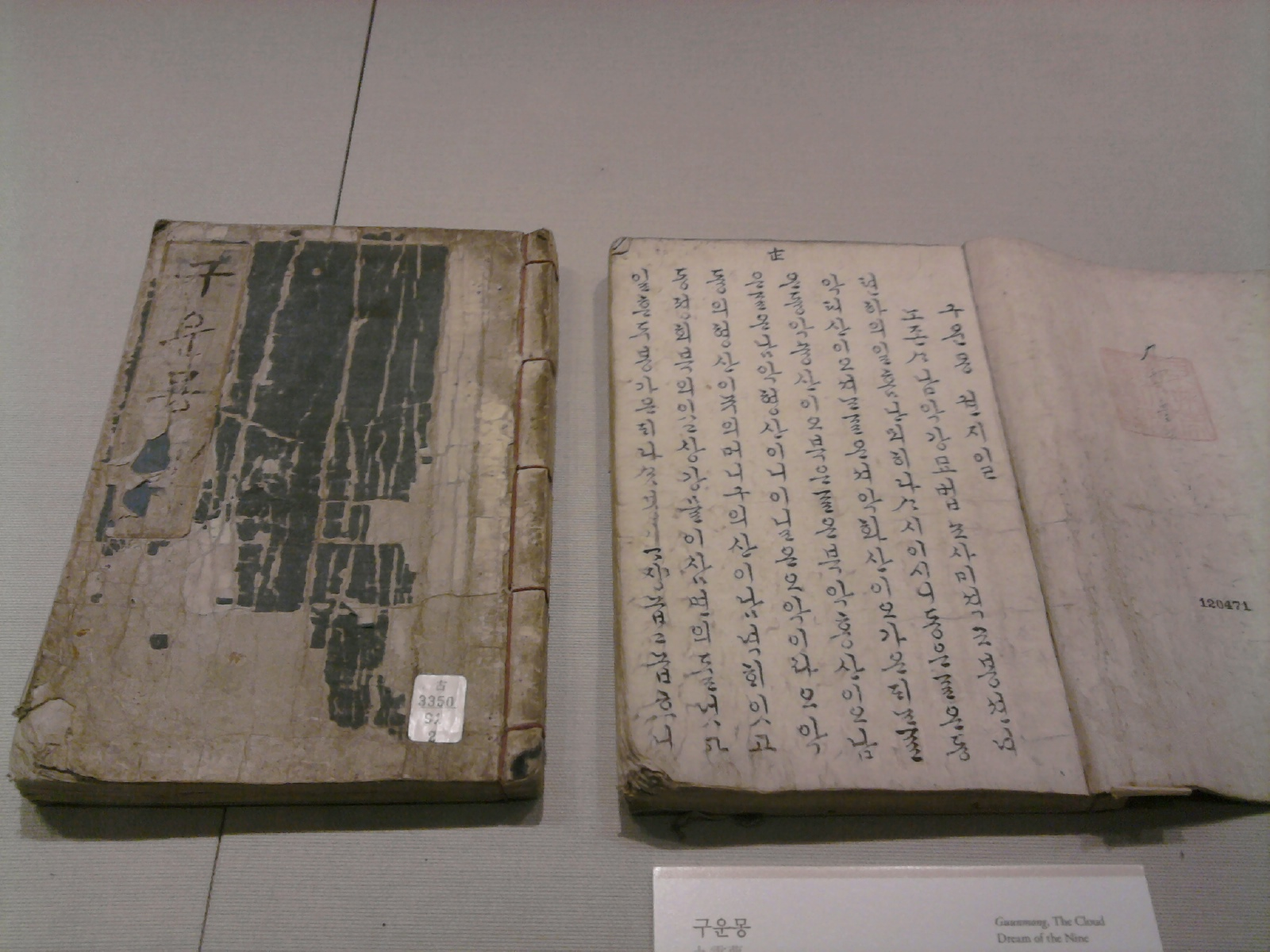 The Cloud Dream of the Nine displayed in Seoul National University Kyujanggak Institute for Koreanology Studies